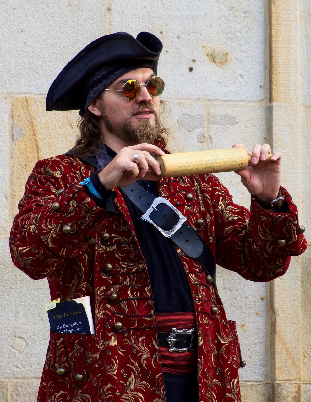 Pastafari with Tricorne, Rolling pin and The Gospel at the annual meeting of the Church of the Flying Spaghetti Monster (registered association) Germany 2019 in Osnabrück